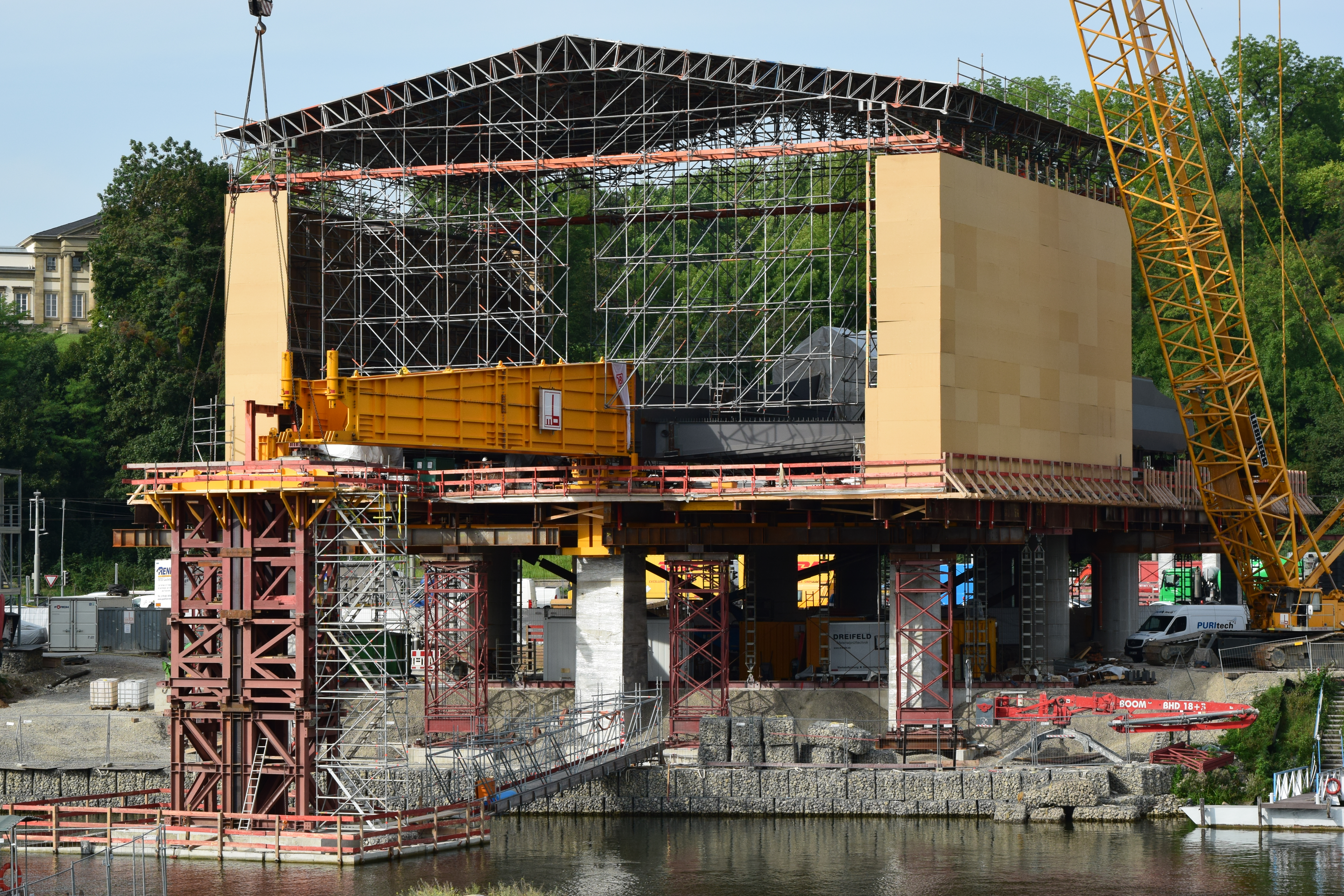 Building site of the new building of the Neckar bridge within the scope of the project Stuttgart 21 in Stuttgart, Germany. First from twelve bridge parts was already inserted in the tact sliding procedure.